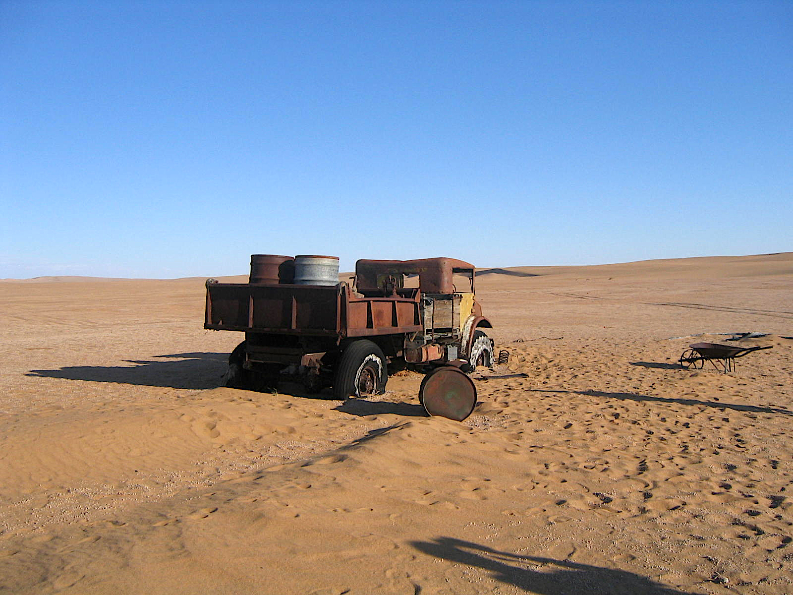 Ford Canada in the Namib Desert